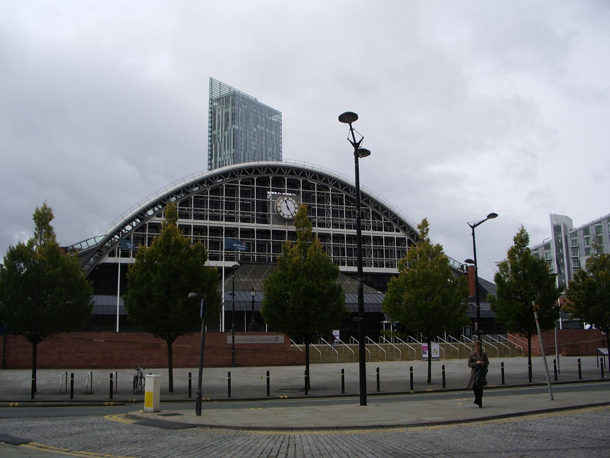 with the Beetham Tower